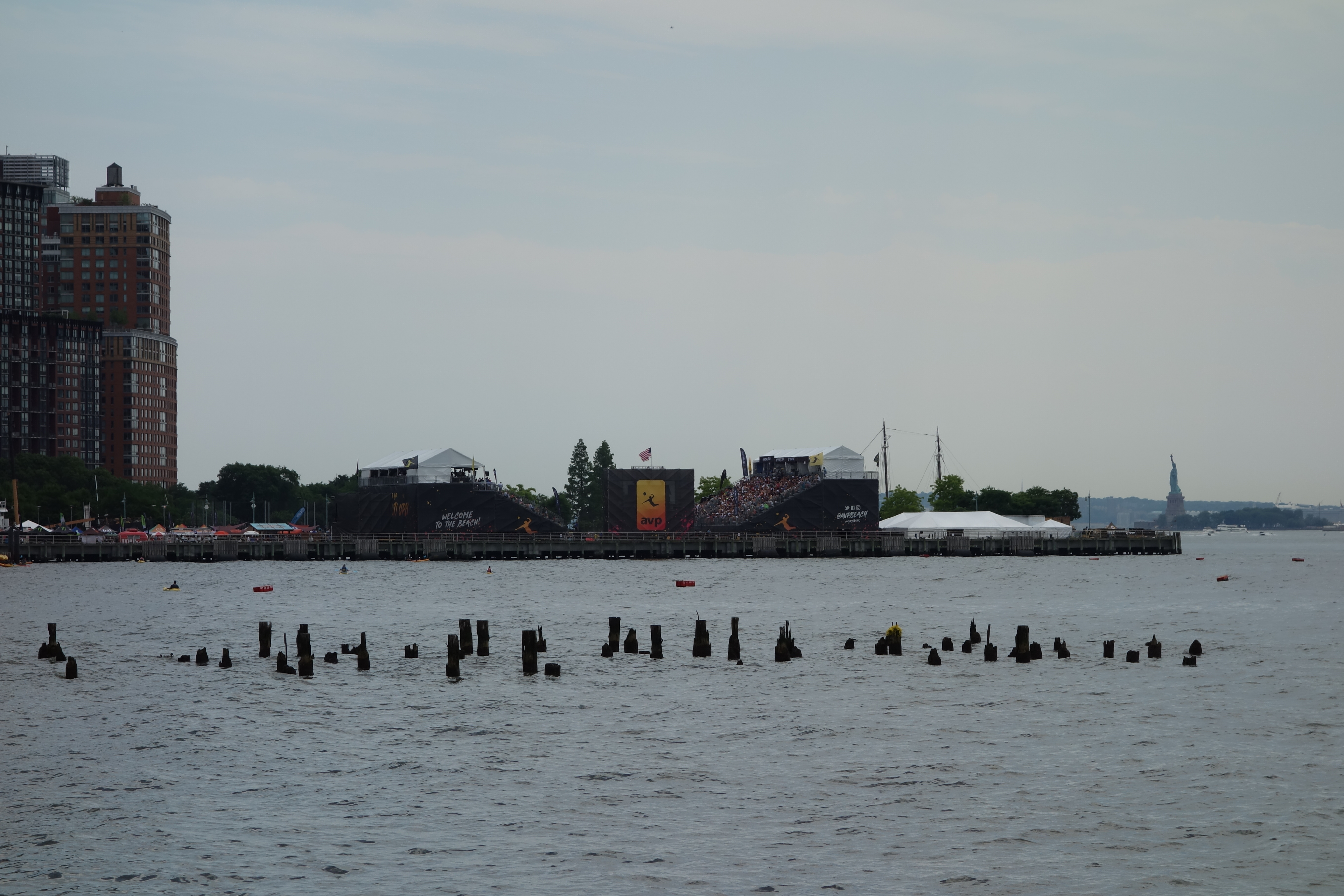 Looking south from near Pier 34 at the AVP New York City open held at Pier 26 in Hudson River Park, looking from the west side of West Street at Canal and Spring Streets in Lower Manhattan.